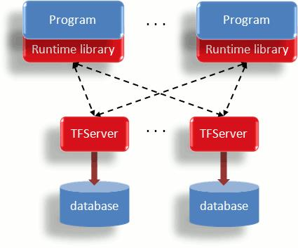 Raima Database Manager Transactional File Server Operation